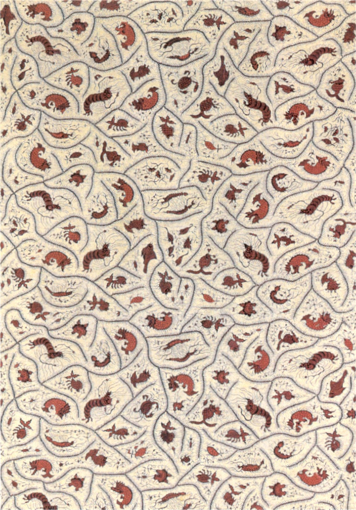 Detail of skirt from Cirebon, Java, early 20th century, coton, tulis batik, Honolulu Museum of Art